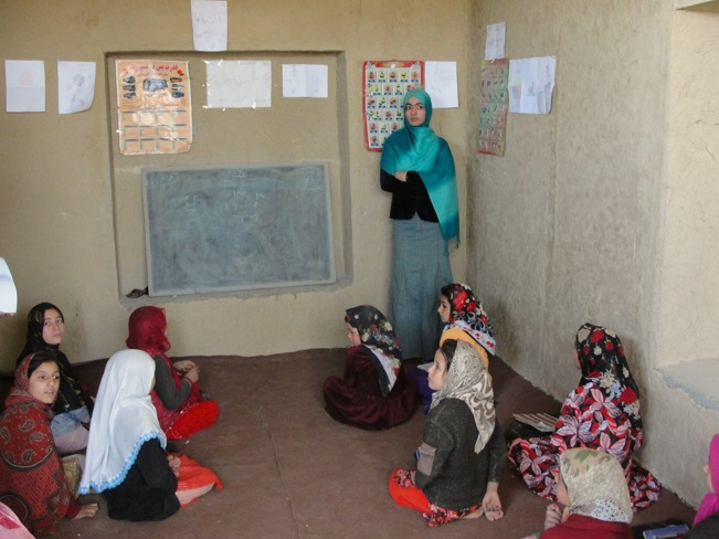 Clever and beautiful teacher of the girl's class. She makes 230 USD per month.